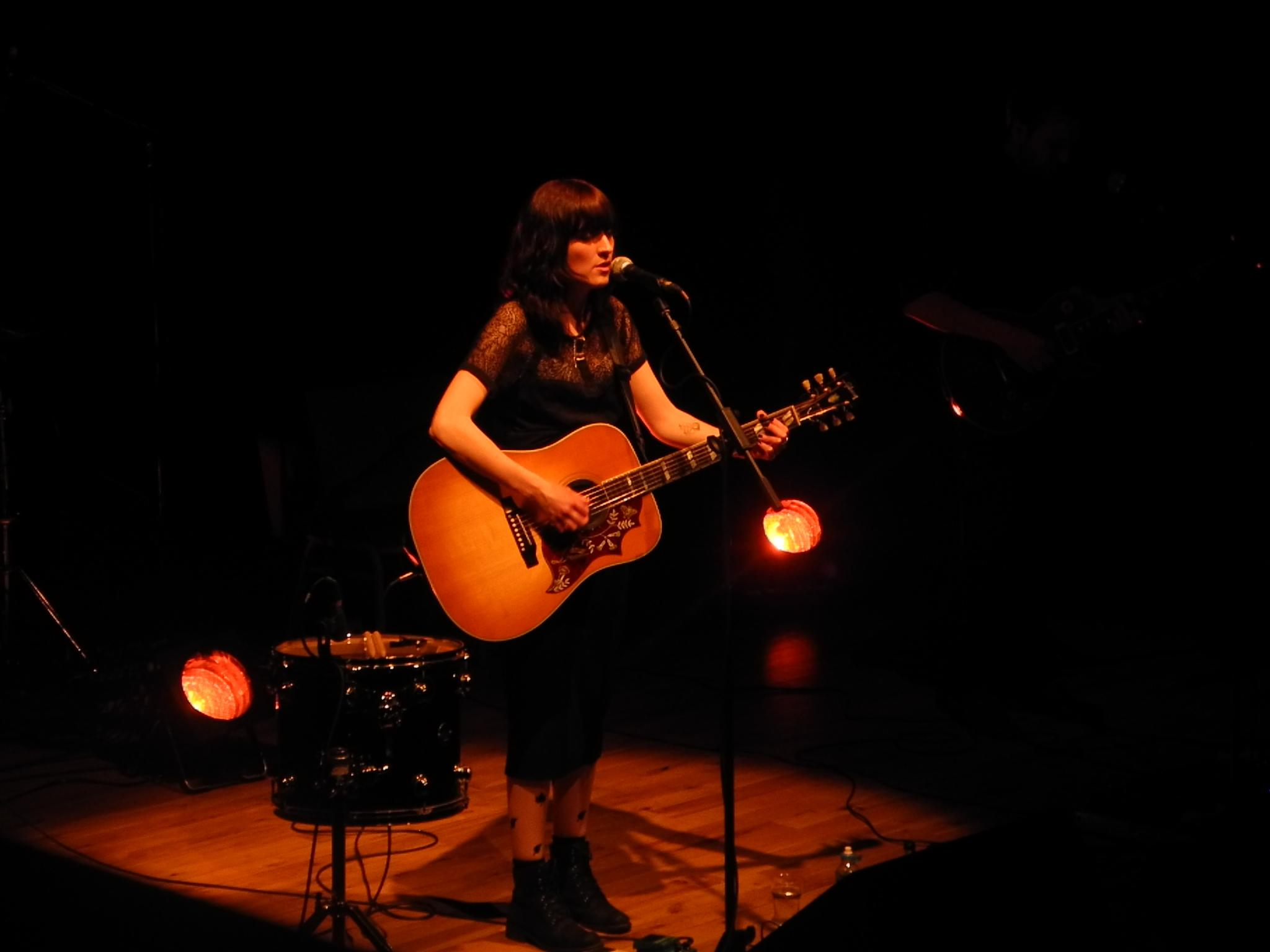 Taken on 16th May 2013 in Cambridge - performing as part of Paper Aeroplanes